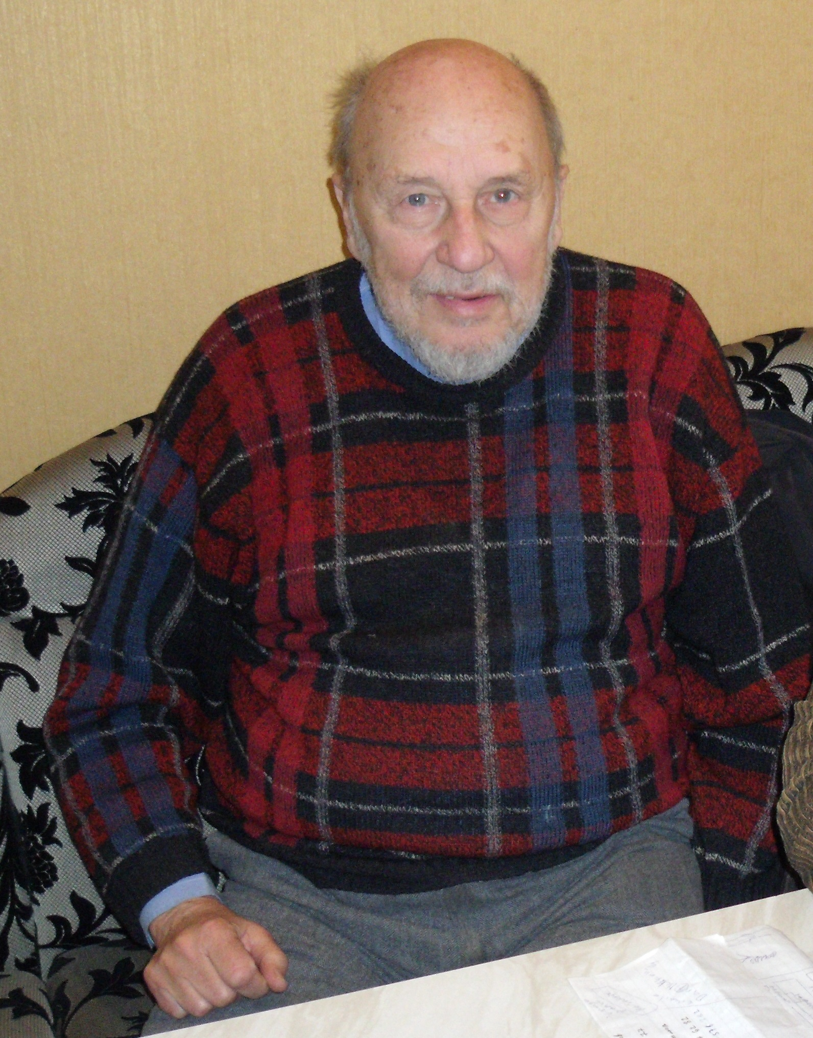 Atanas Slavov. Bulgarian writer, poet, screenwriter, art critic and semiotician. Sliven, Bulgaria, January 2010